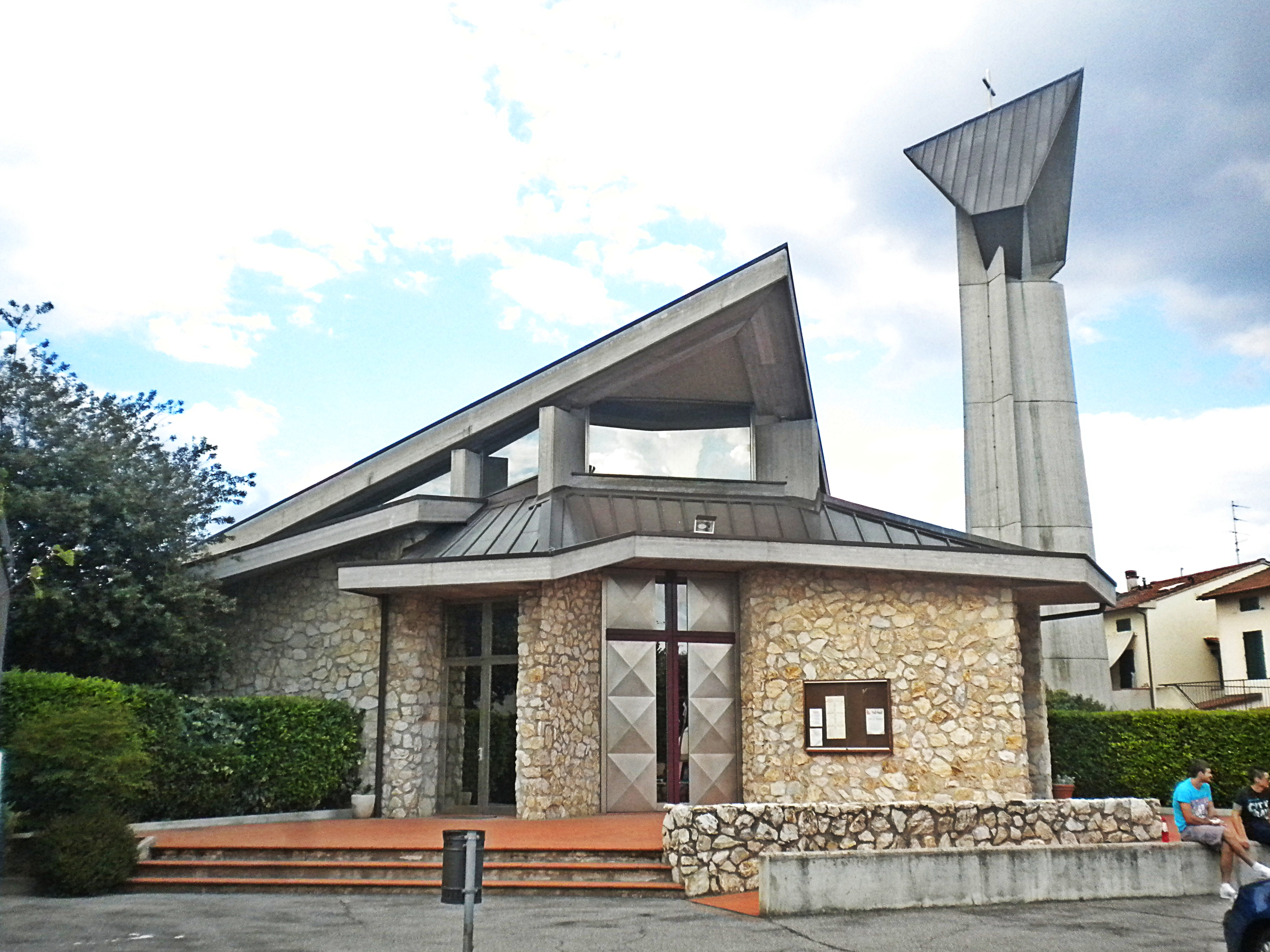 new church